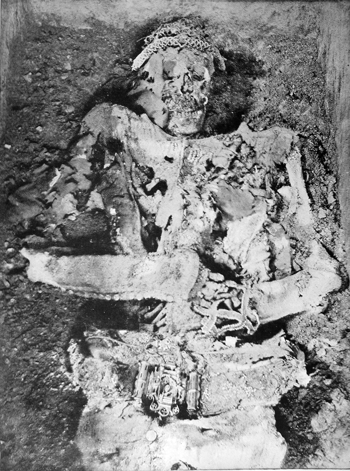 Voivodal tomb opened in 1920. supposed he was Wallachian Prince and founding figure Basarab I, but other research suggests that he was in fact Radu I.